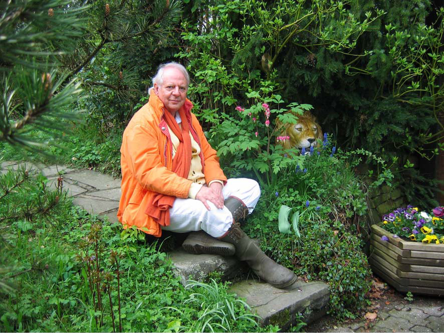 Karlheinz Stockhausen, 20 April 2005 in his garden in Kürten. (Photo: Kathinka Pasveer)